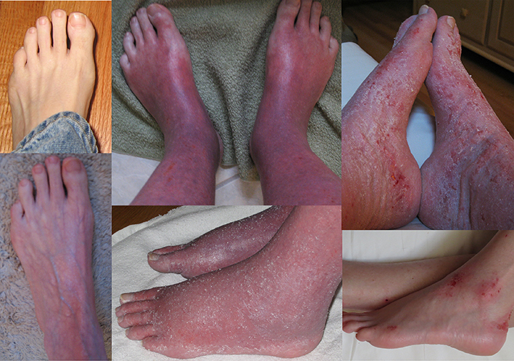 Red (burning) skin syndrome: L-Top=pre-clobetasol topical steroid; L-Bottom=thinned skin from usage; C-Top=severe vascular impact at steroid withdrawal; C-Bottom=edema and Iatrogenic erythroderma (exfoliative dermatitis) aspect of topical steroid withdrawal; R-Top=persistent flare area without edema; R-Bottom=19 months from steroid withdrawal